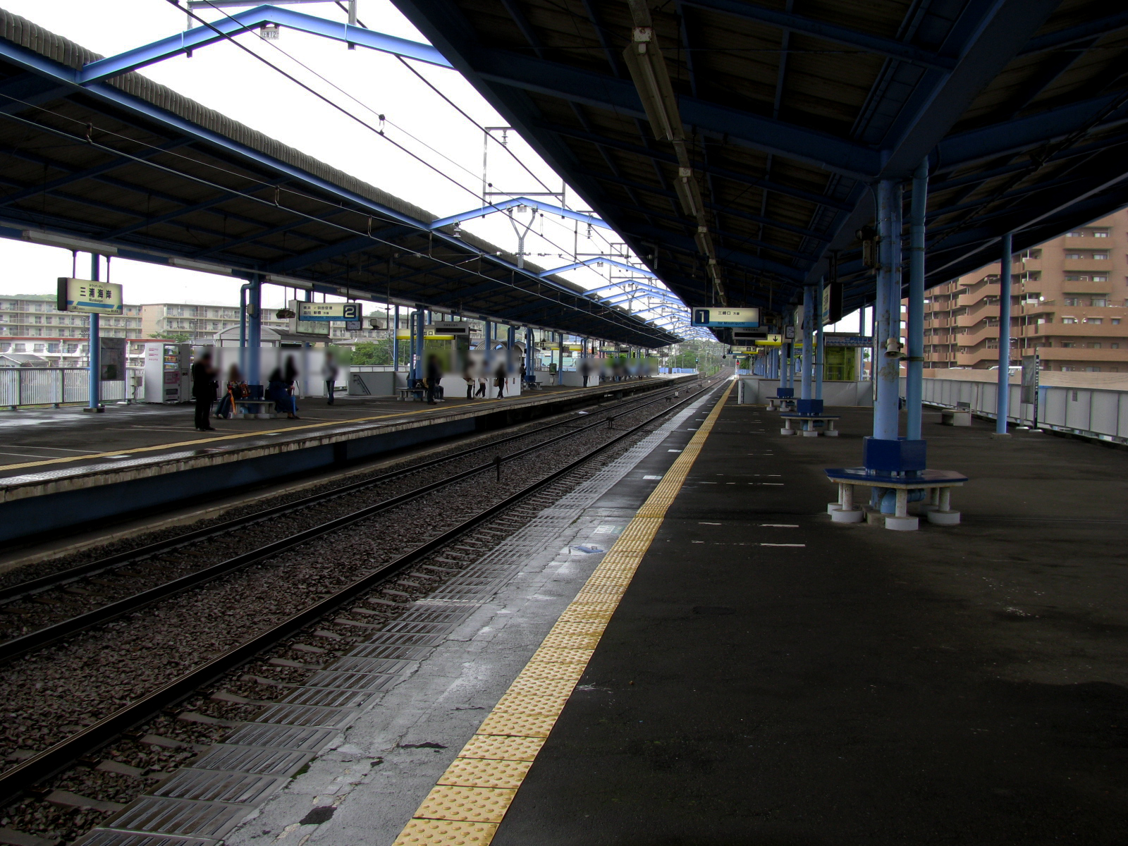 Miurakaigan Station on the Keikyu Kurihama Line